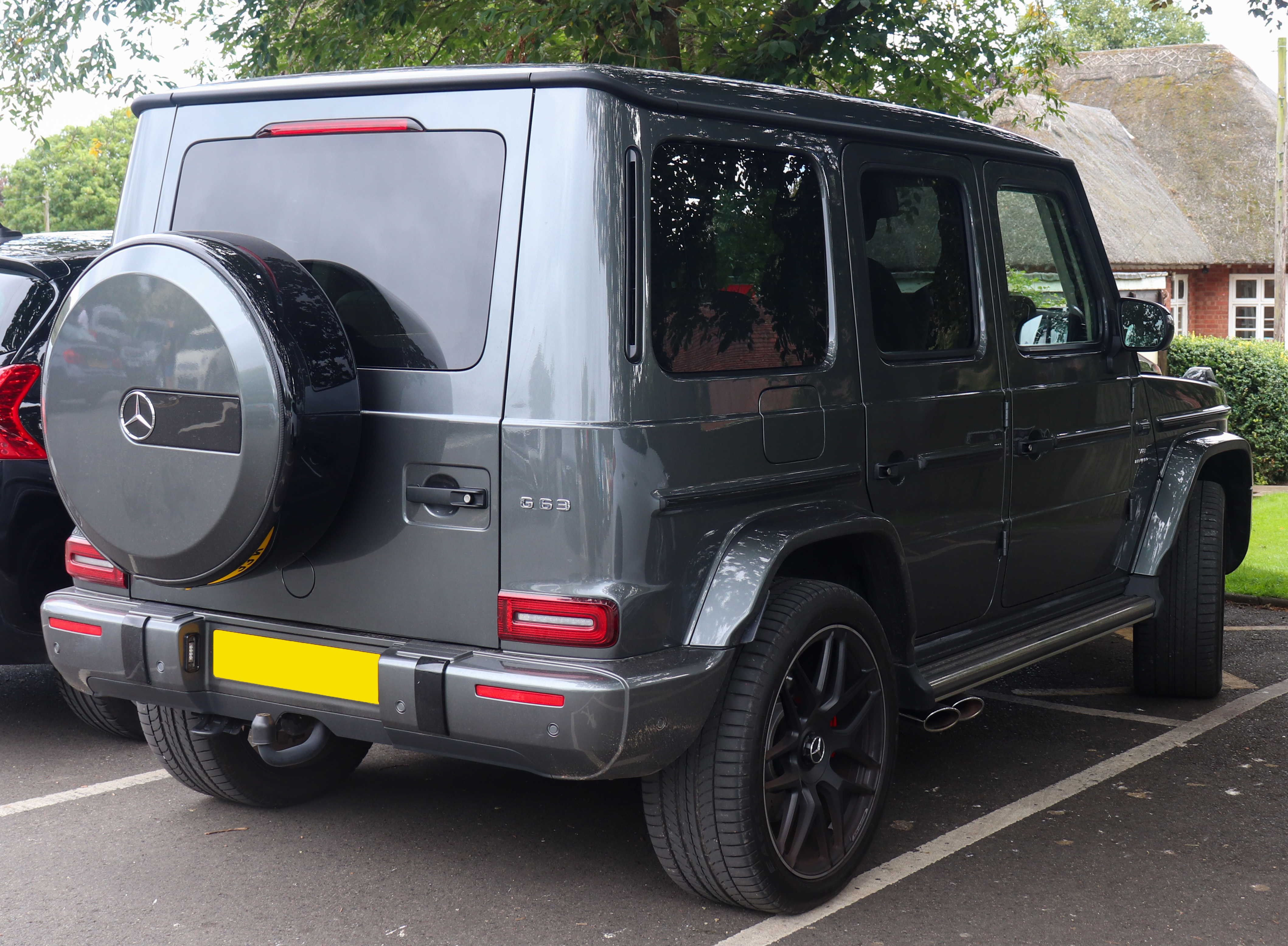 2018 Mercedes-AMG G 63 4MATIC Automatic 4.0 Rear Taken in Warwick